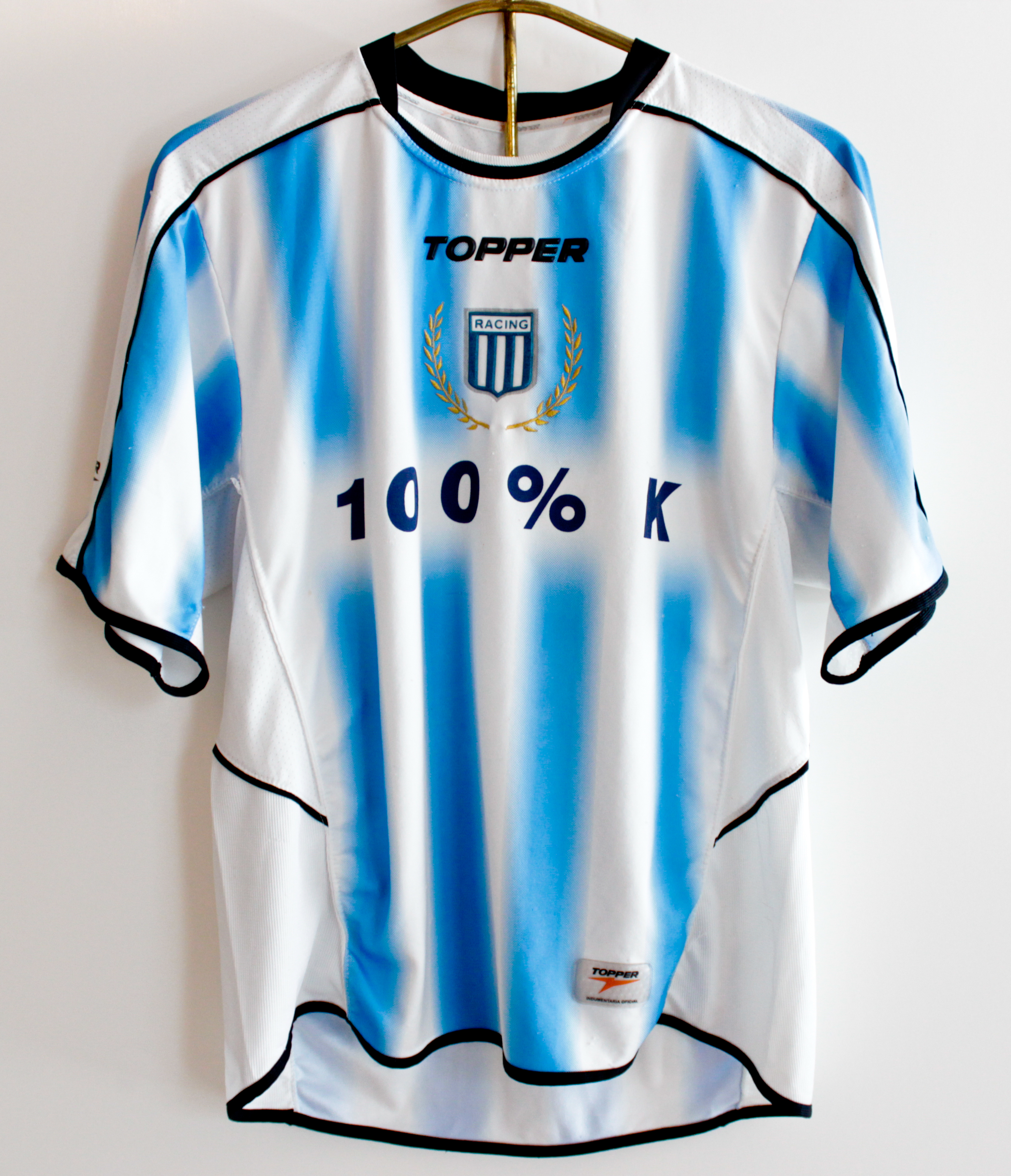 Racing Club de Avellaneda jersey that belonged to former President of Argentina Néstor Kirchner. The shirt is currently exhibited at the Museum of Argentina Bicentennial.